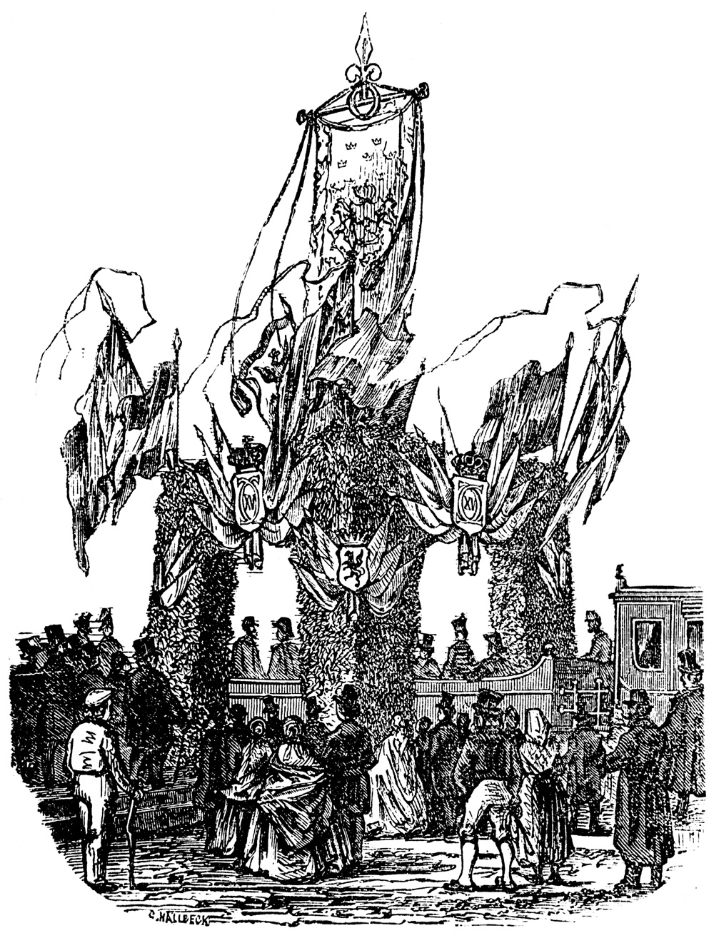 The royal car under a honorary arch at Flen, November 3 1862.